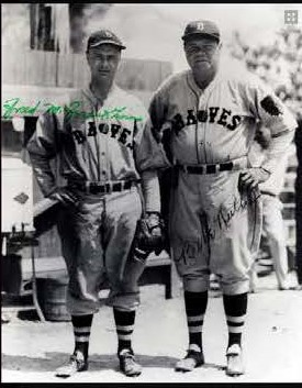 Public Domain Image of Fred Frankhouse and Babe Ruth